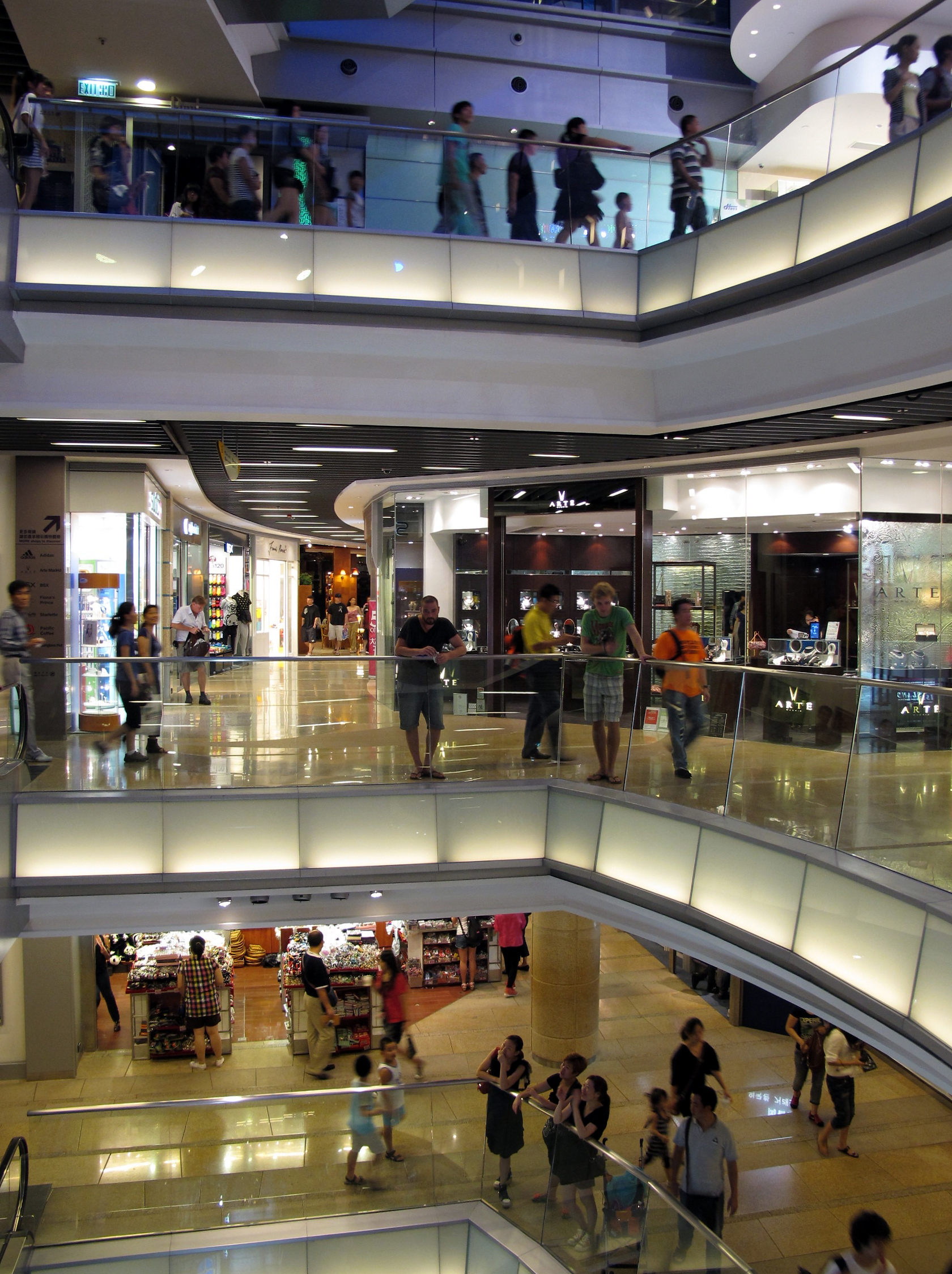 The Peak Tower Shops